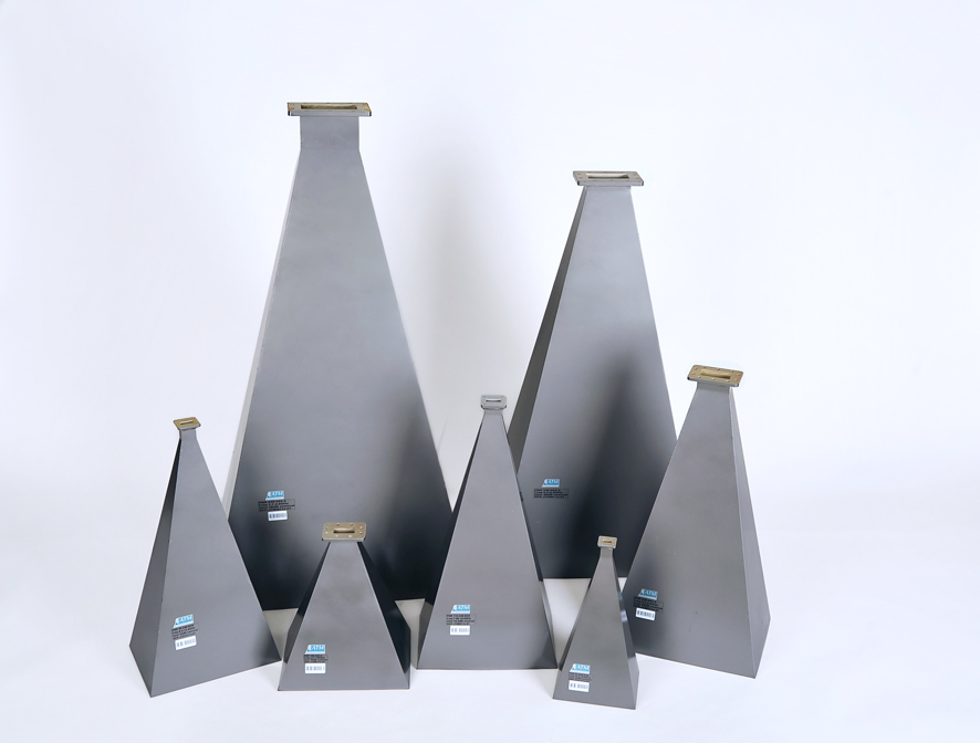 A family of microwave horn antennas manufactured by Tactron Electronik GmBH, Germany. These are pyramidal horn antennas with flanges to bolt onto standard waveguide.